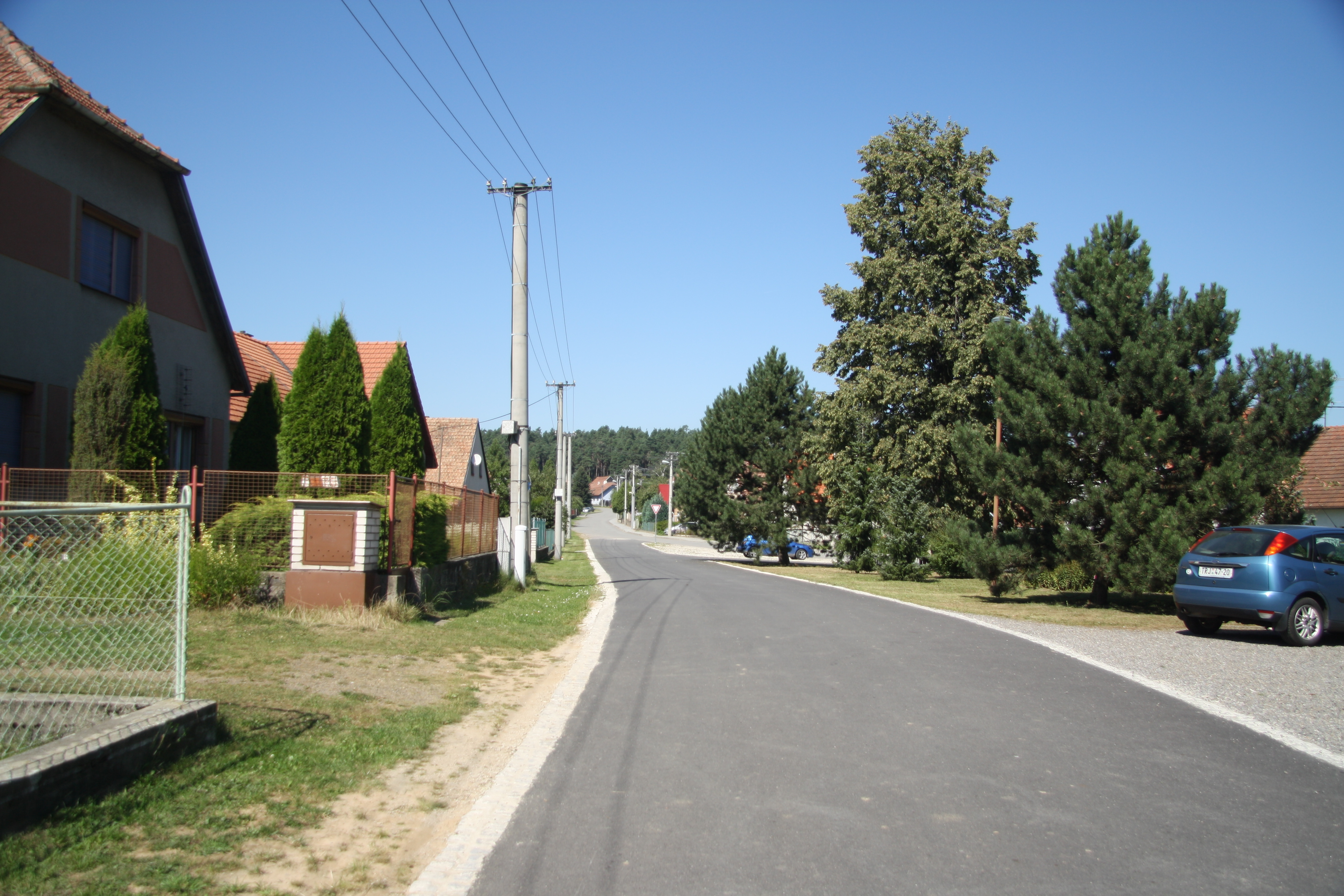 Center of Dolní Bory, Bory, Žďár nad Sázavou District.